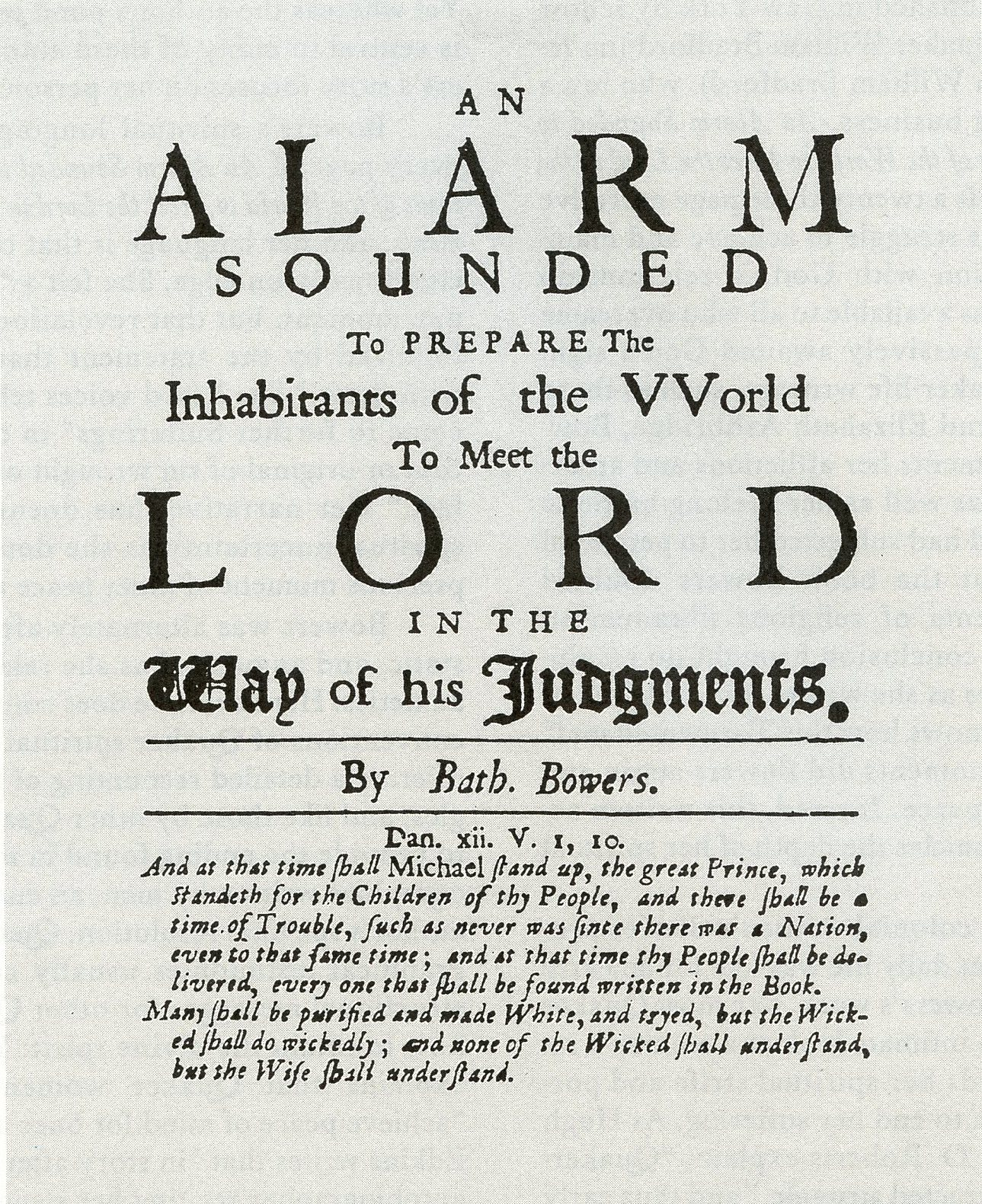 Title page of Bathsheba Bowers, "An Alarm Sounded to Prepare the Inhabitants of the World to Meet the Lord in the Way of His Judgement", printed by William Bradford, 1709 scanned from Petrulionis, Sandra Harbert (1998). "Bathsheba Bowers". Dictionary of Literary Biography: American Women Prose Writers to 1820. 200. pp. 62-66.